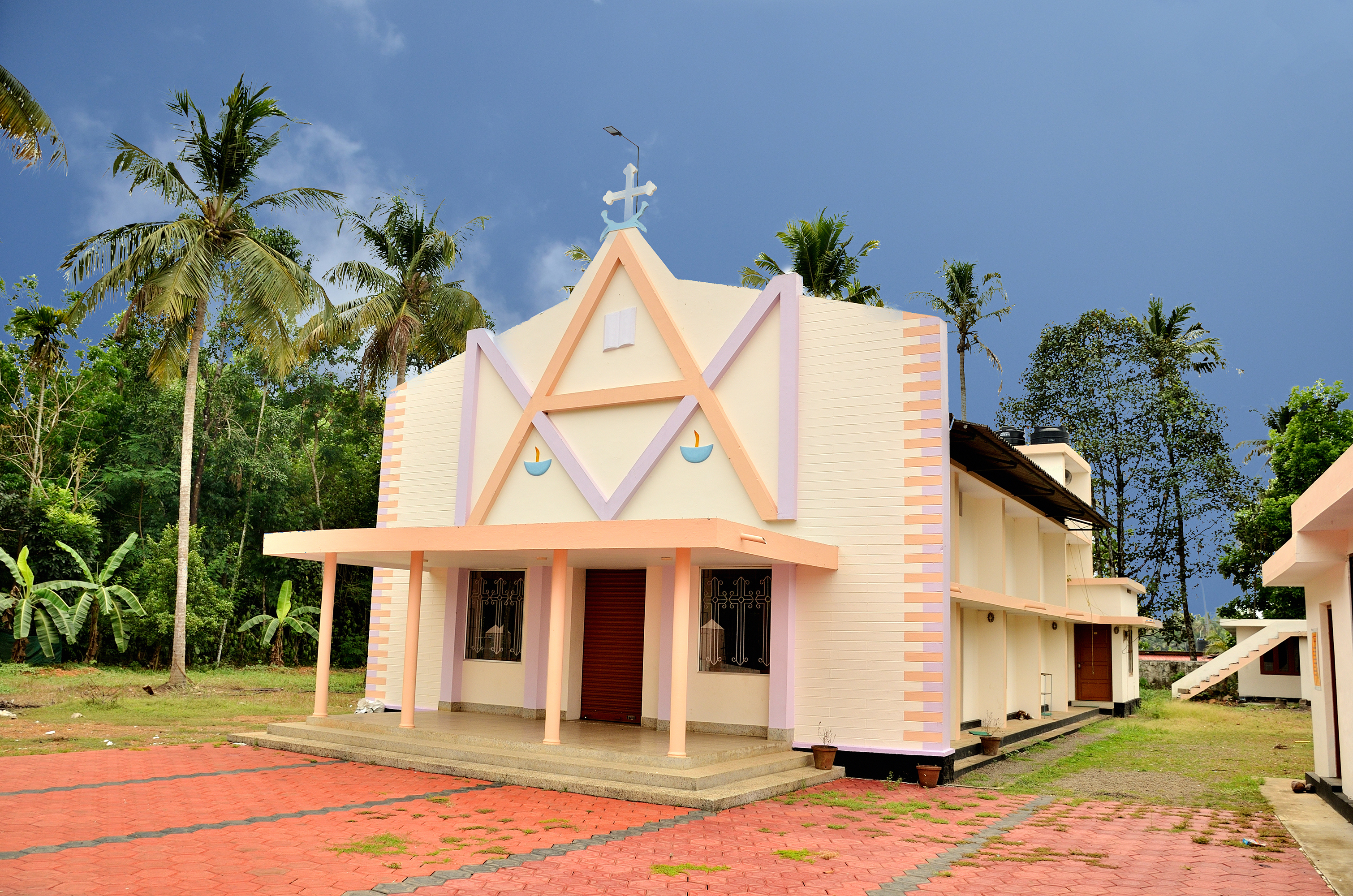 Mariyan Thuruth, Arogyamatha Shrine Church, Eravathour, Mala, Thrissur Disrtict, Kerala